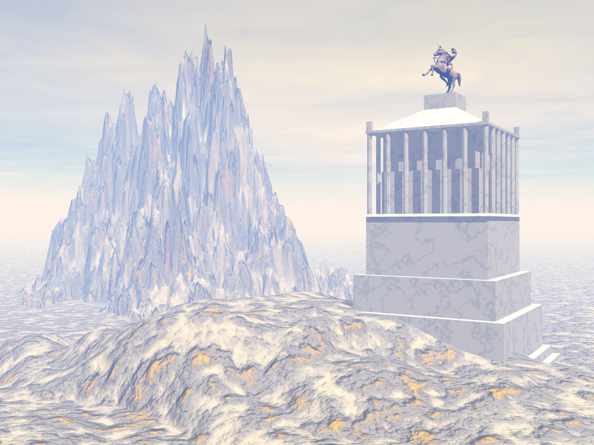 The Mausoleum of Maussollos, or Mausoleum of Halicarnassus was a tomb built between 353–350 BC at Halicarnassus (present Bodrum, Turkey), for Mausolus (in Greek, Μαύσωλος), a provincial king in the Persian Empire, and Artemisia II of Caria, his wife and sister.